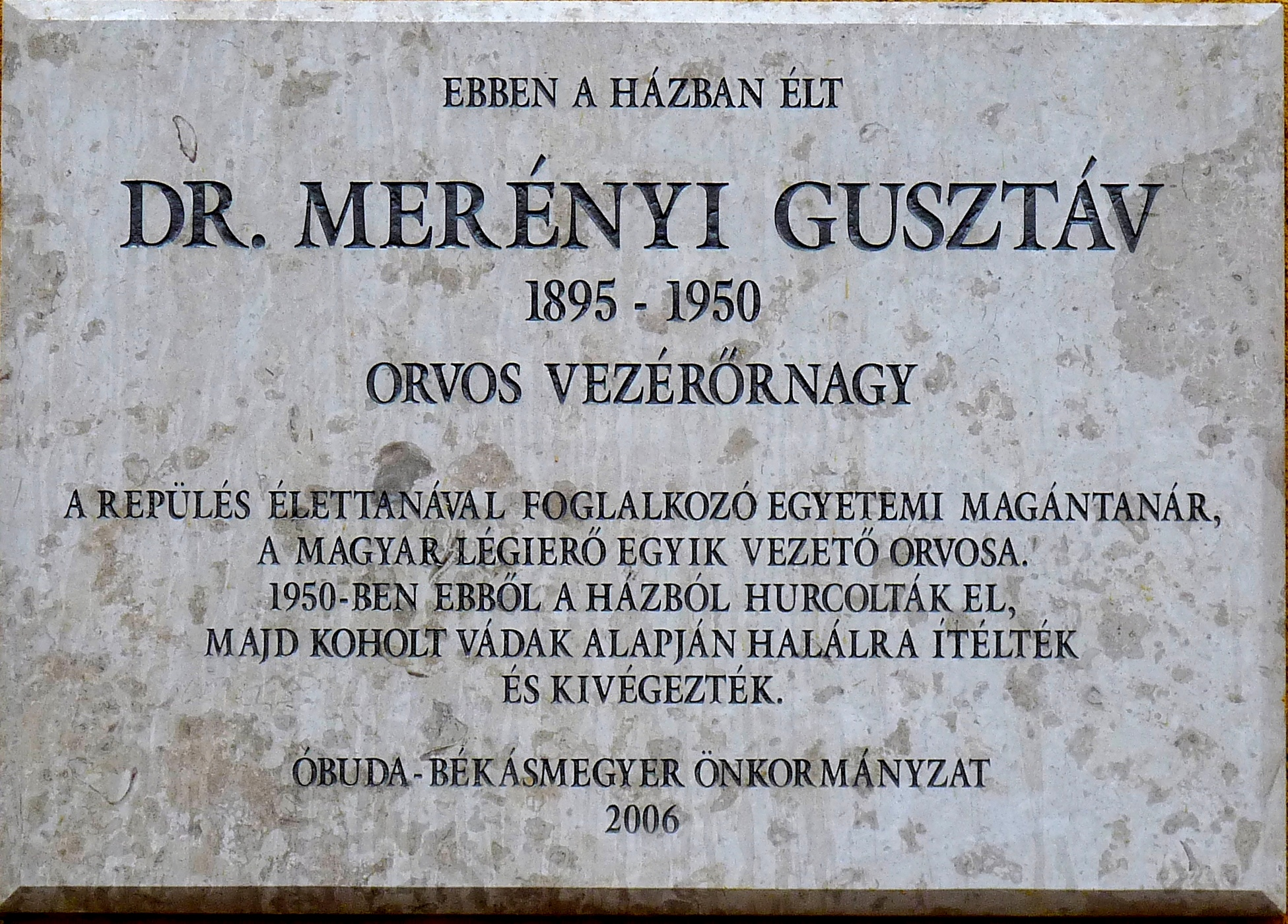 Commemorative plaque to Mr. Gusztáv Merényi dr. (1910-1975) Hungarian Major General medicine attached to the front of his former home. (Budapest, District III, Föld Street 50/b)